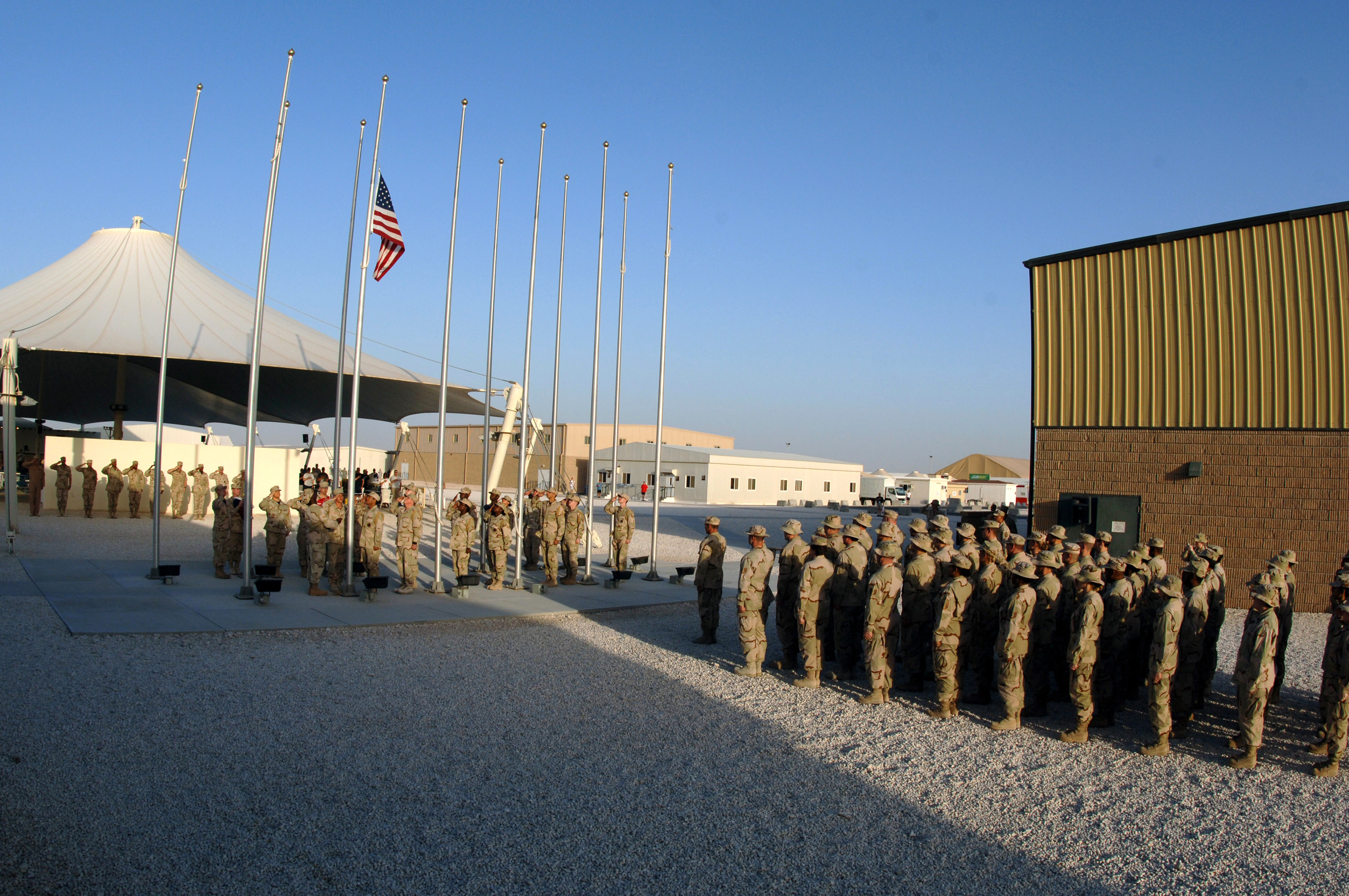 Desert honor guard: Airmen from the honor guard and the 379th Expeditionary Medical Group perform a retreat ceremony at a deployed location in Southwest Asia.